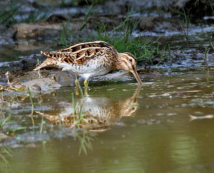 Common Snipe Gallinago gallinago at Keoladeo National Park, Bharatpur, Rajasthan, India.